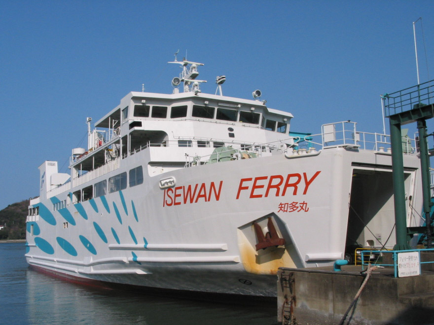 Chita Maru of The Isewan Ferry IMO number: 9282534 Callsign: JH3486 伊勢湾フェリー 知多丸 三重県鳥羽市の鳥羽港にて撮影